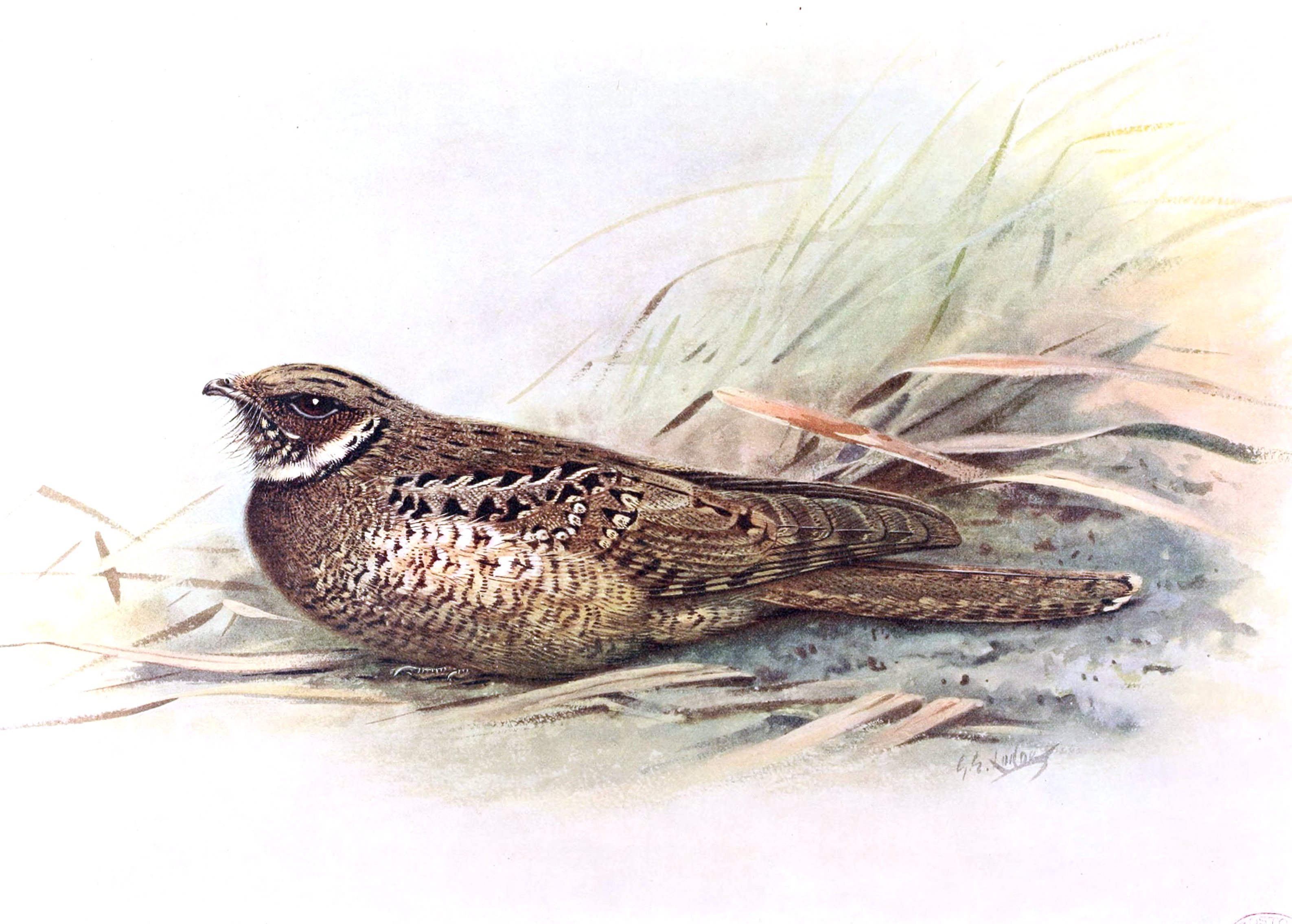 Siphonorhis americana